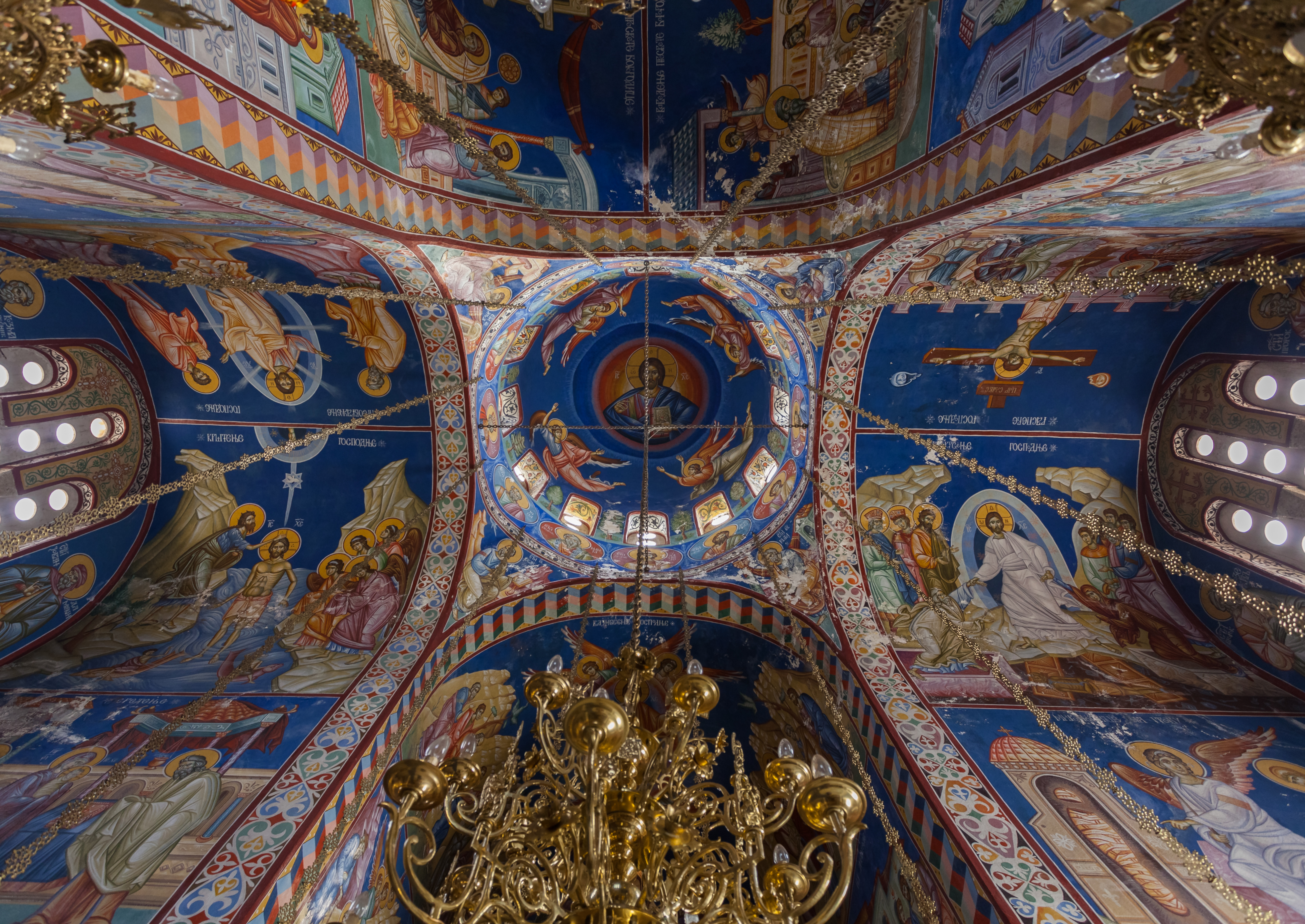 Nova Gracanica church, Trebinje, Bosnia and Herzegovina